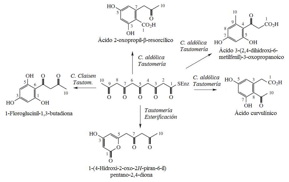 Pentaketides scheme